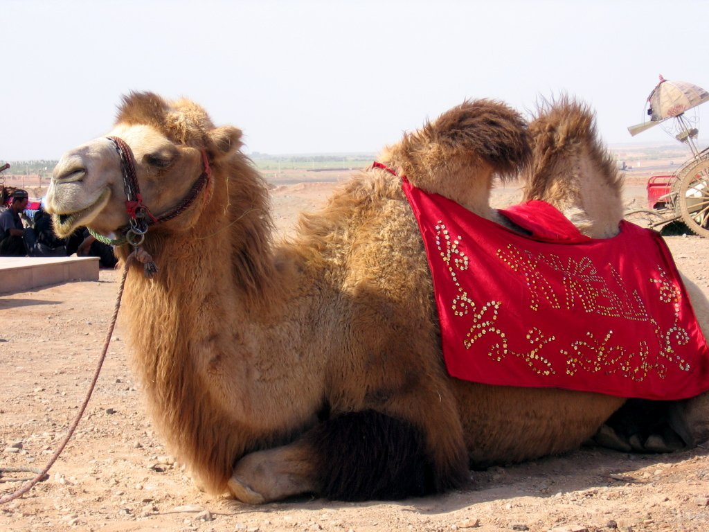 A camel close to Flaming mountains near Turfan in Xinjiang (China).